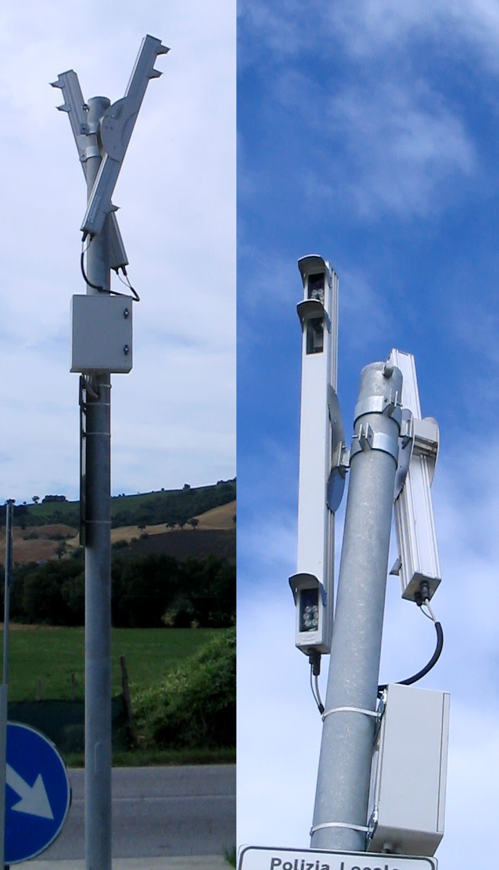 PASVC system in a double configuration for the control of both directions of travel.